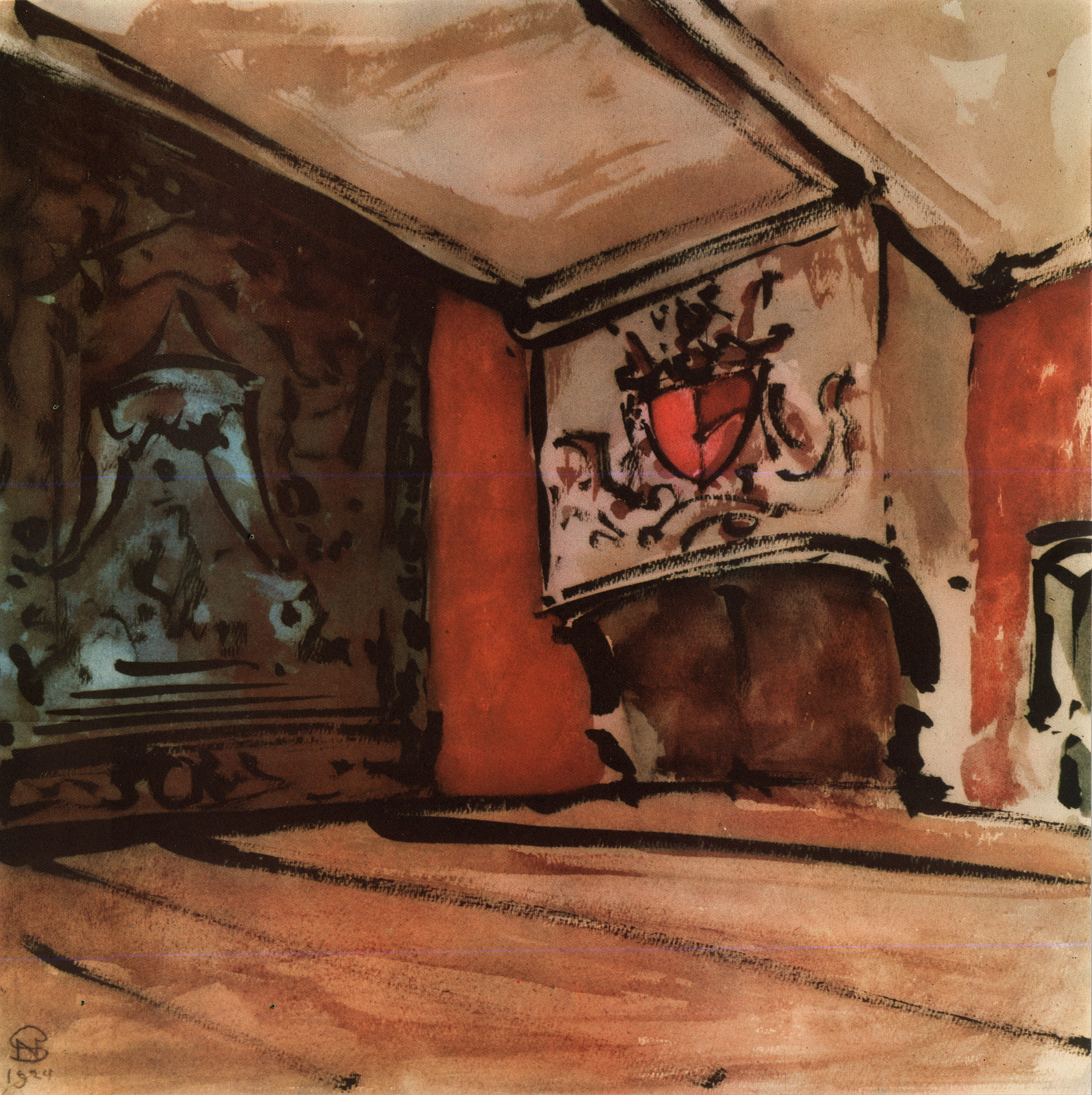 Interior of a Polish castle